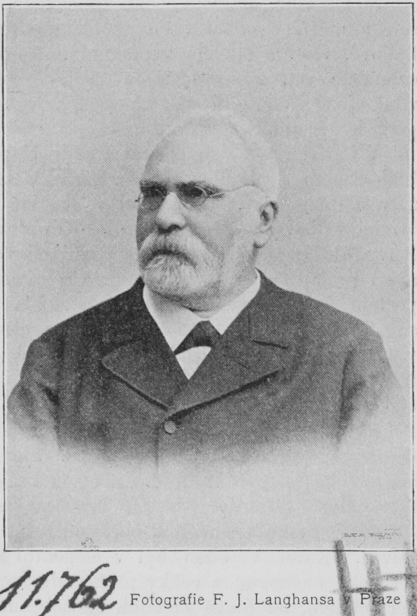 Portrait of Josef Šimáček (1837-1904), Czech wine-grower.